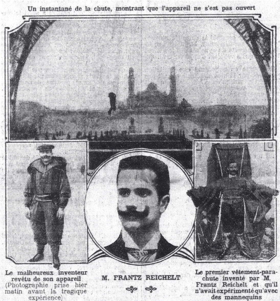 Photo montage for the article "L'inventeur d'un parachute se lance de le tour Eiffel et s'écrase sur le sol" ("The inventor of a parachute launched from the Eiffel Tower and crashed to the ground") from Le Petit Parisien, 5 February 1912 which describes the death of Franz Reichelt